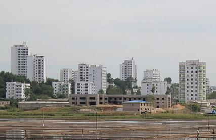 Nampo city, DPRK.